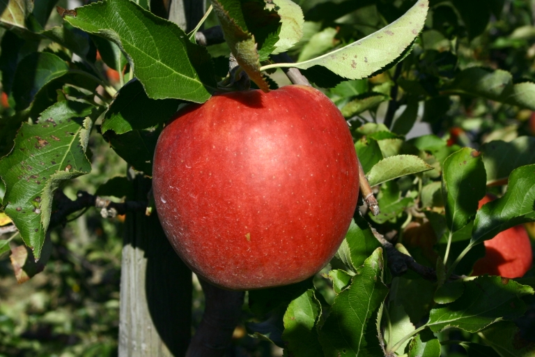 Jonagored apple before harvest